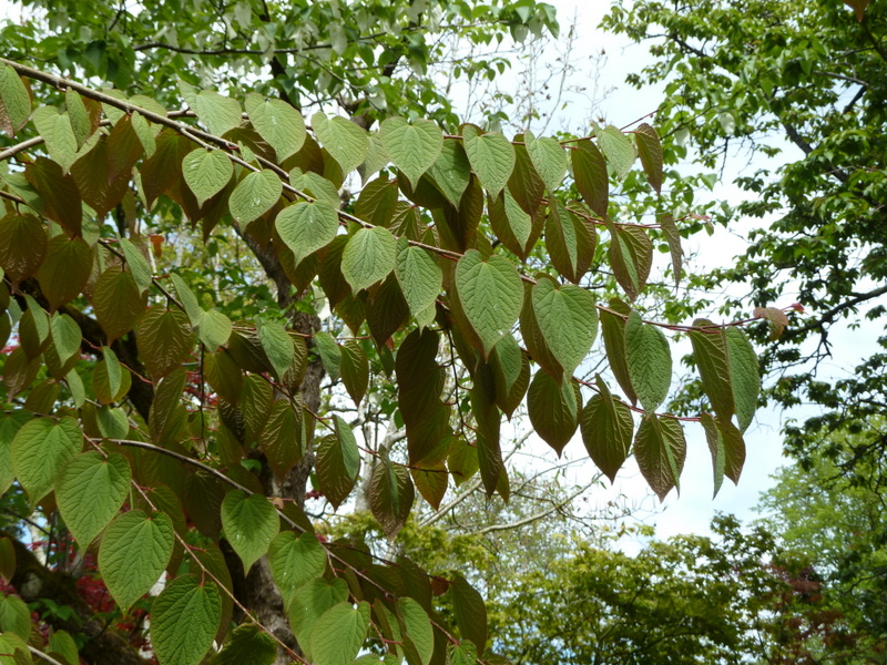 Tetracentron sinense, at Birr Castle and Gardens, in the town of Birr in County Offaly, Ireland. In the Trochodendron family